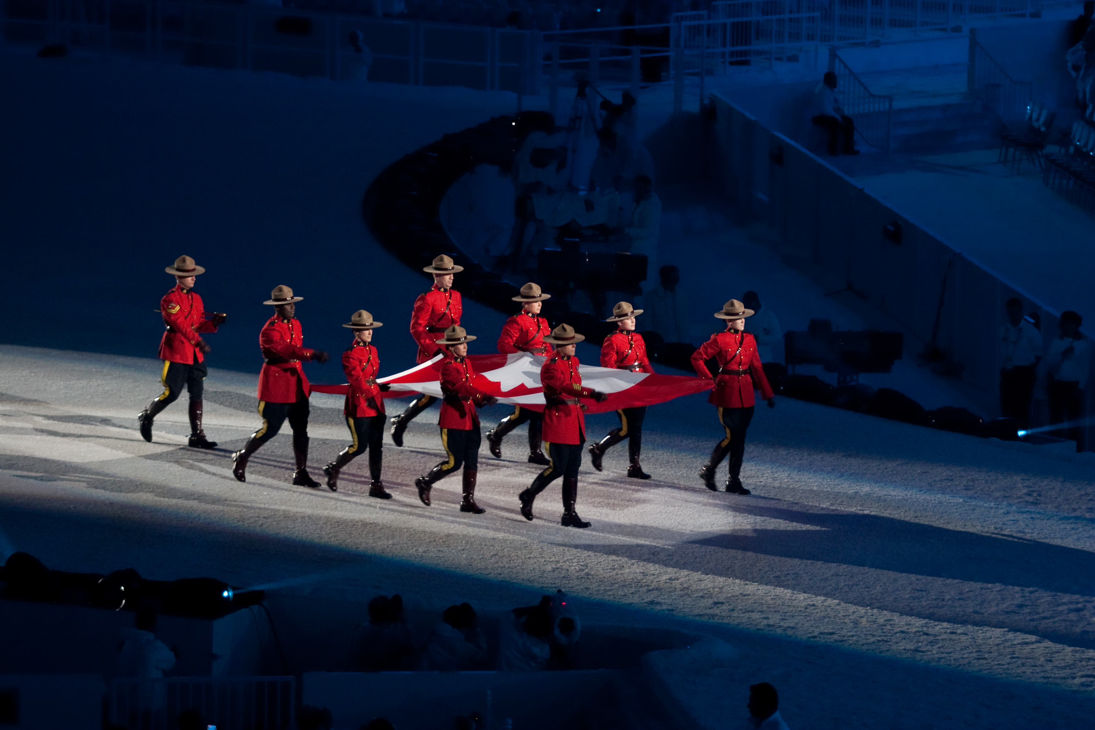 Canadian flag carried by RCMP at the opening cermonies of the 2010 Winter Olympics in Vancouver.